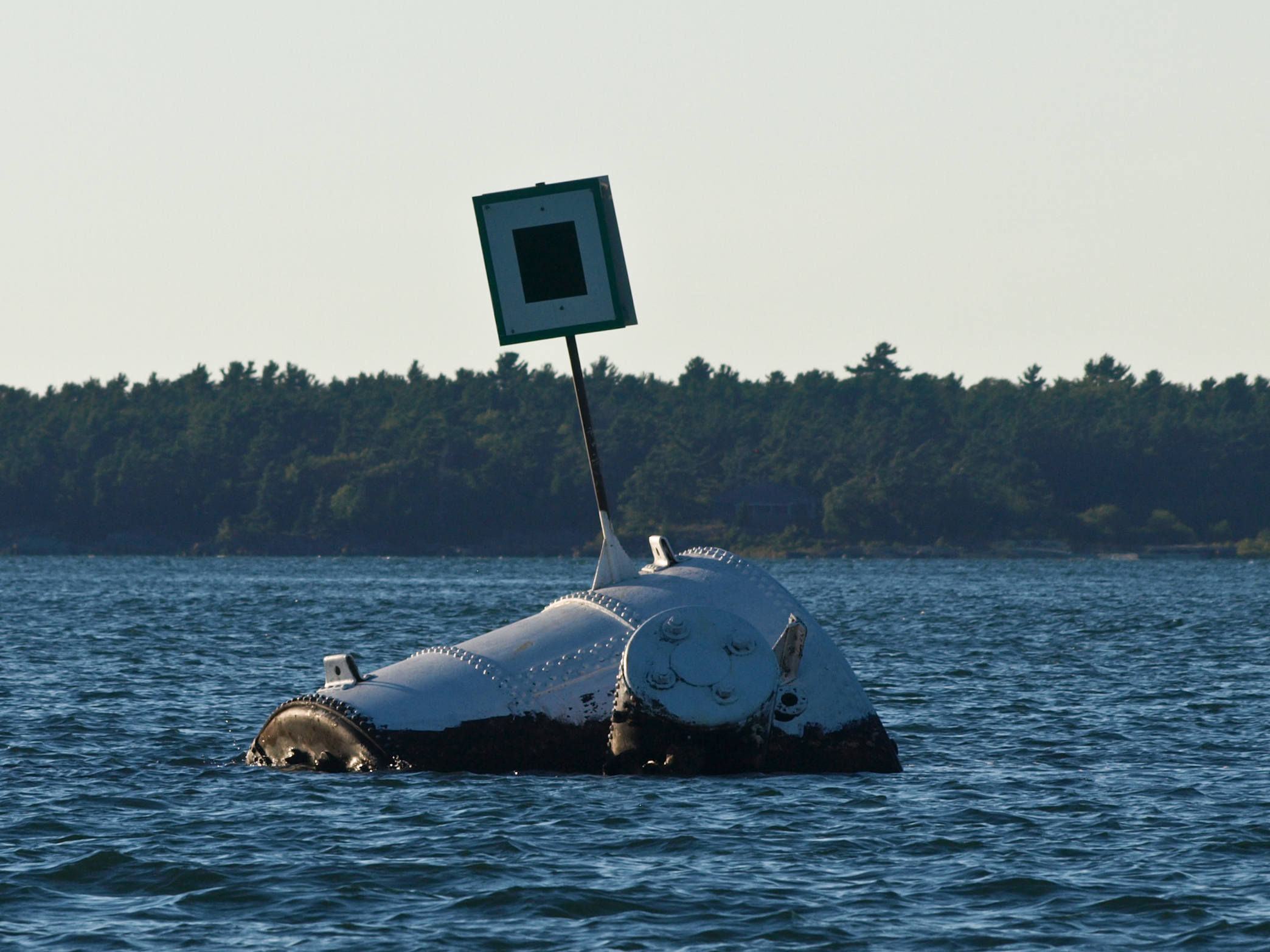 The above-water remains of the wreck of the tug "Metamora" which sank near Pointe au Baril in Georgian Bay in 1907. What can be seen is the ship's boiler, which has been painted white and has a channel marker attached to it as a hazard warning.